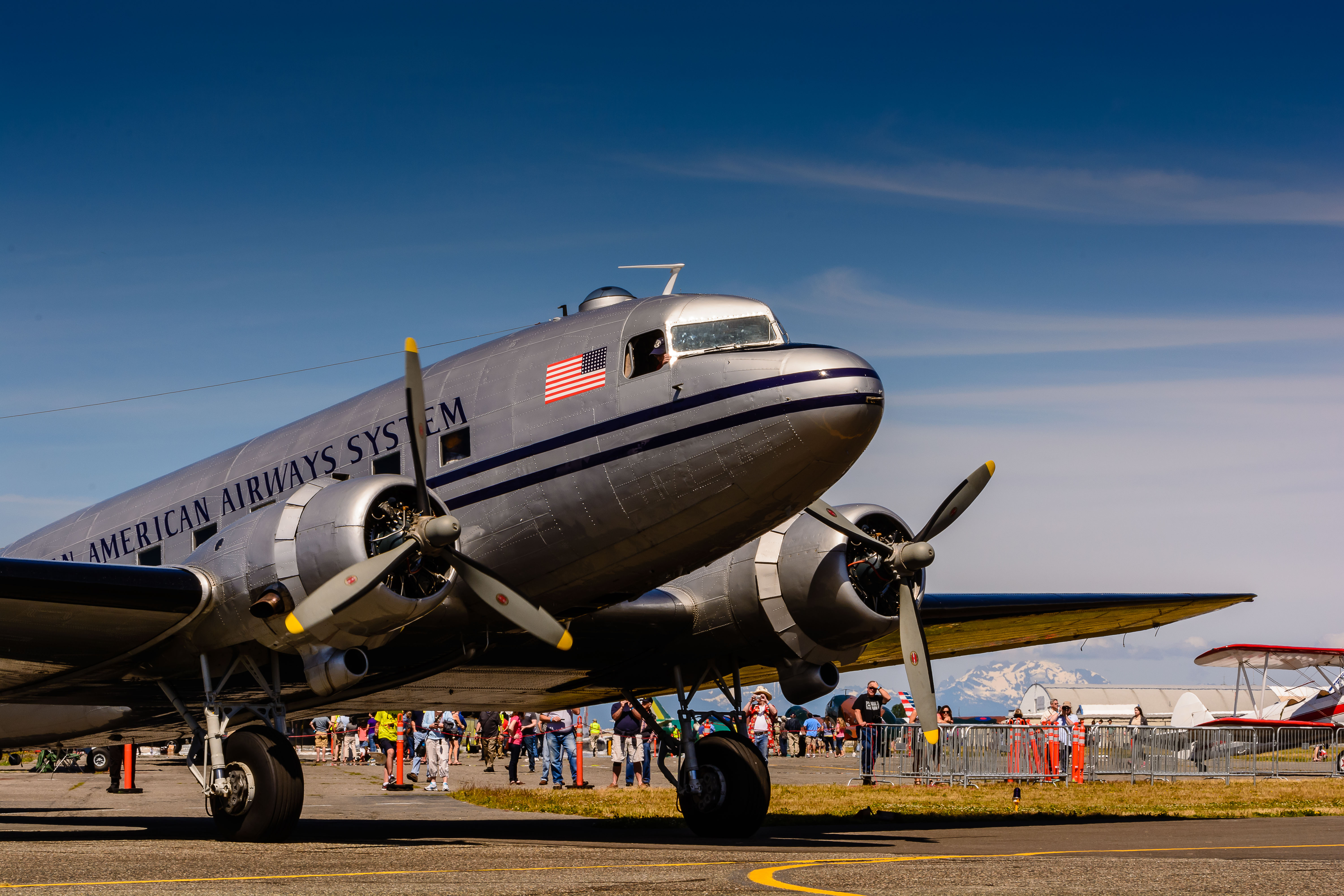 The Historic Flight Foundation's Douglas DC-3 on display at HFF's hangar at Paine Field.